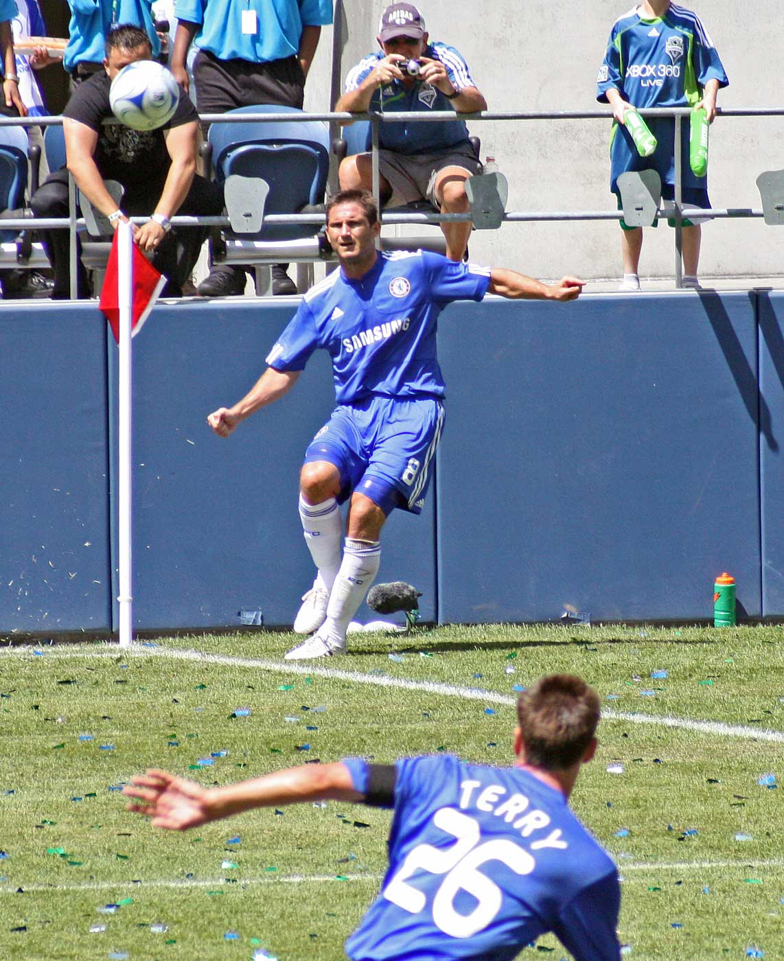 Frank Lampard playing for Chelsea in a friendly match against Seattle Sounders in 2009.